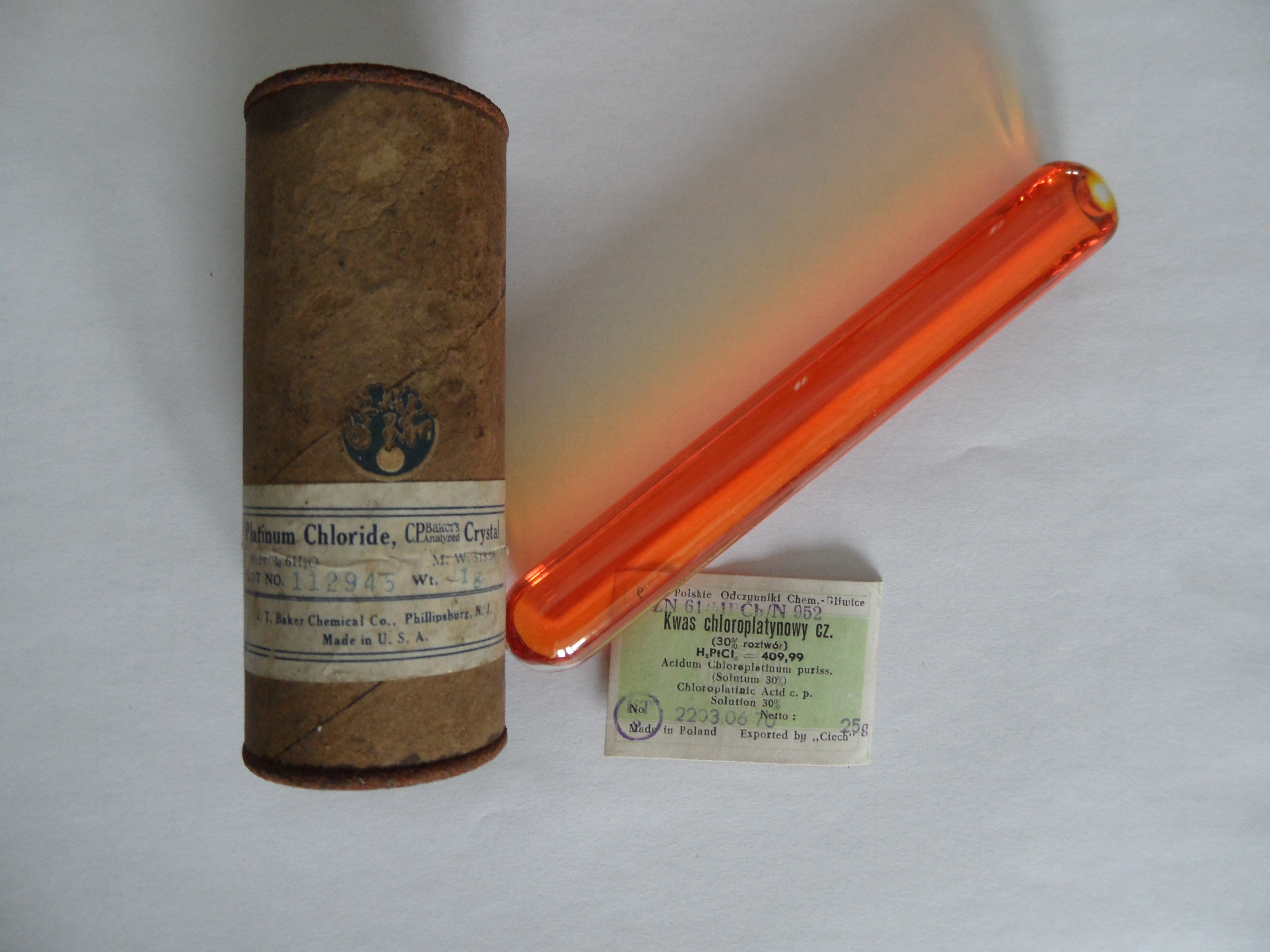 Platinum compounds: platinum chloride, chloroplatinic acid 30% solution